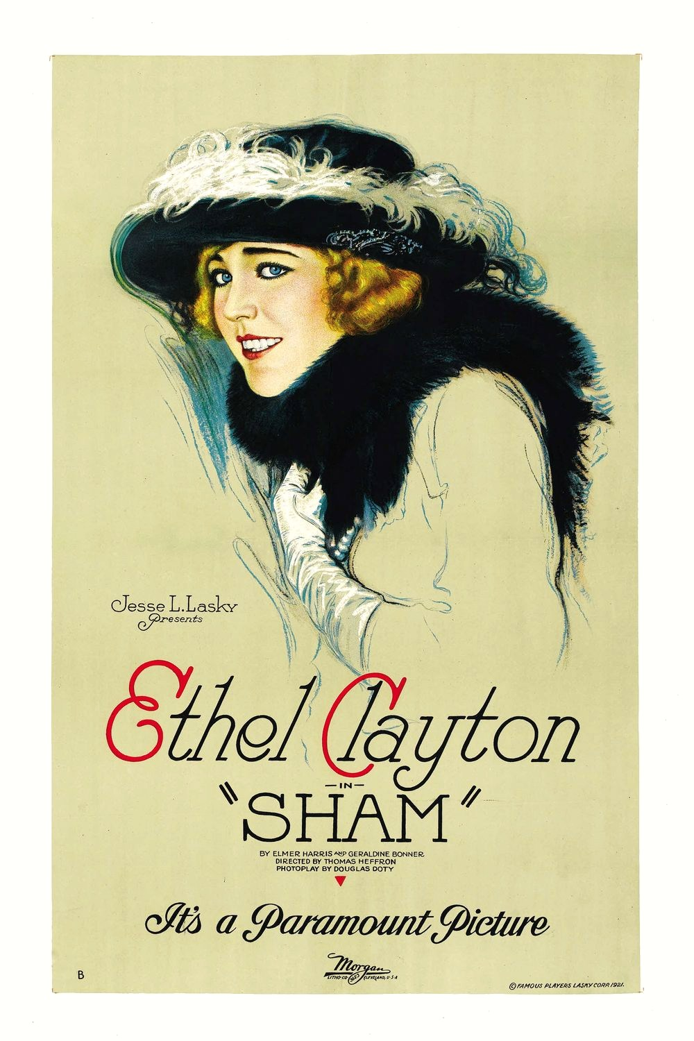 Ethel Clayton in Sham (1921) - promotional poster